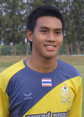 Teerathep Winothai, Thai footballer playing in the national team